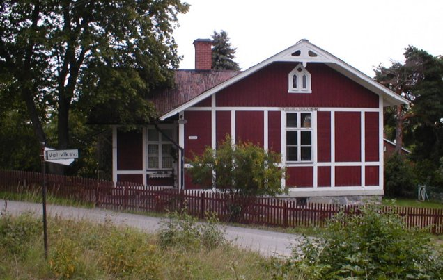 The old school (1886) in Stenhamra, near Stockholm Sweden